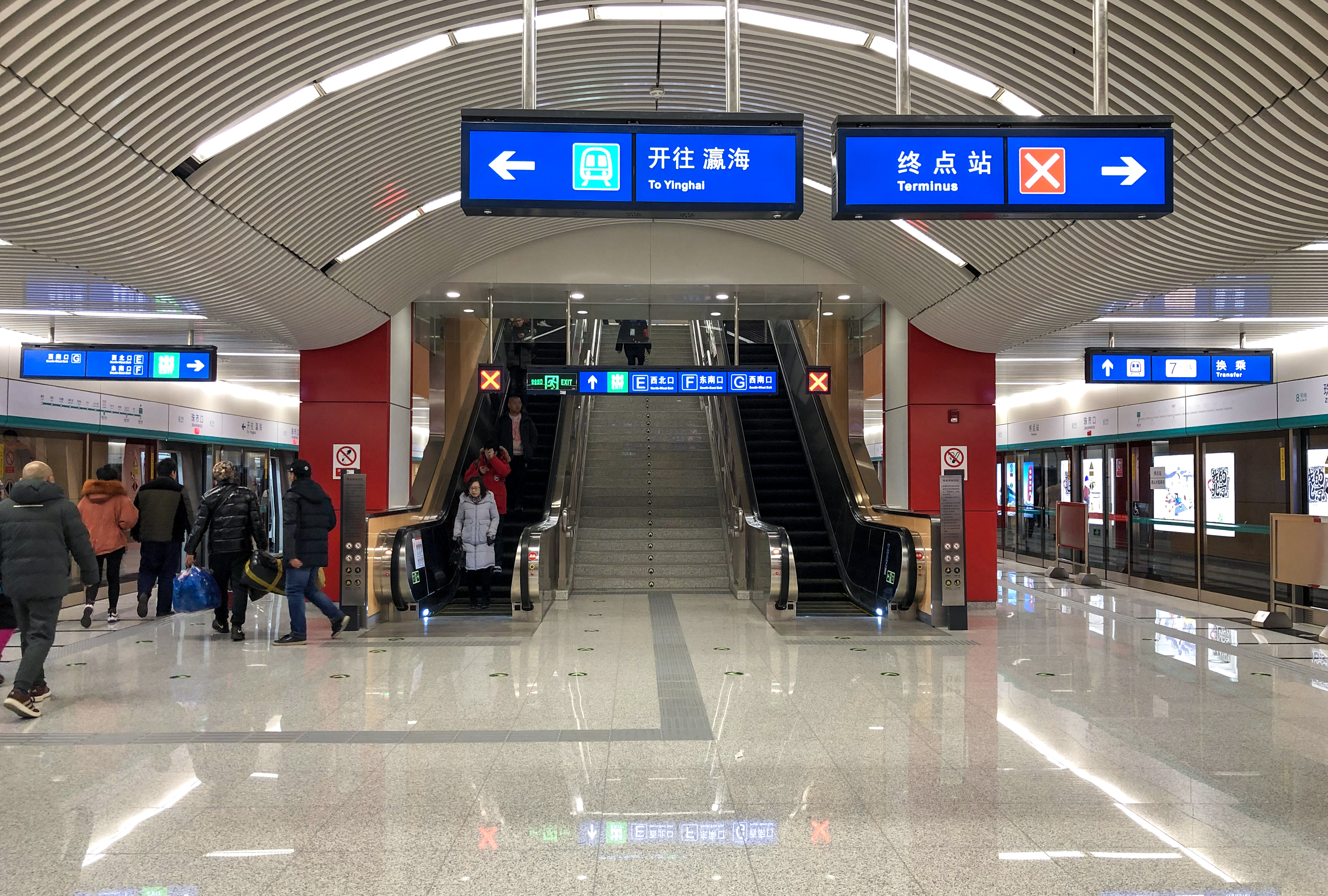 Only one side of the platform is used.